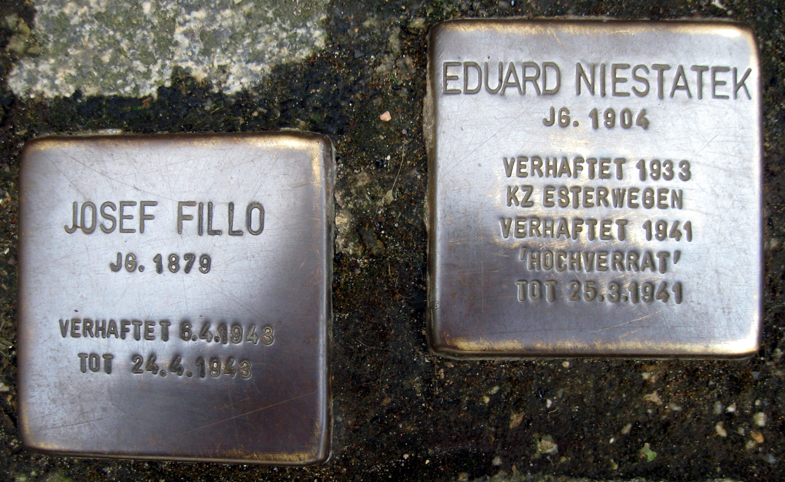 Stolpersteine in Dortmund, Steinstraße 50